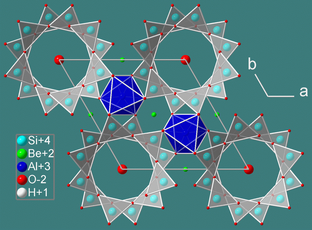 Crystal structure of beryl